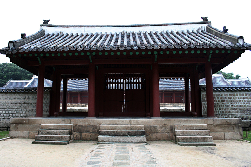 The main gate of main hall in Jongmyo located in Jongro-gu, Seoul, South Korea